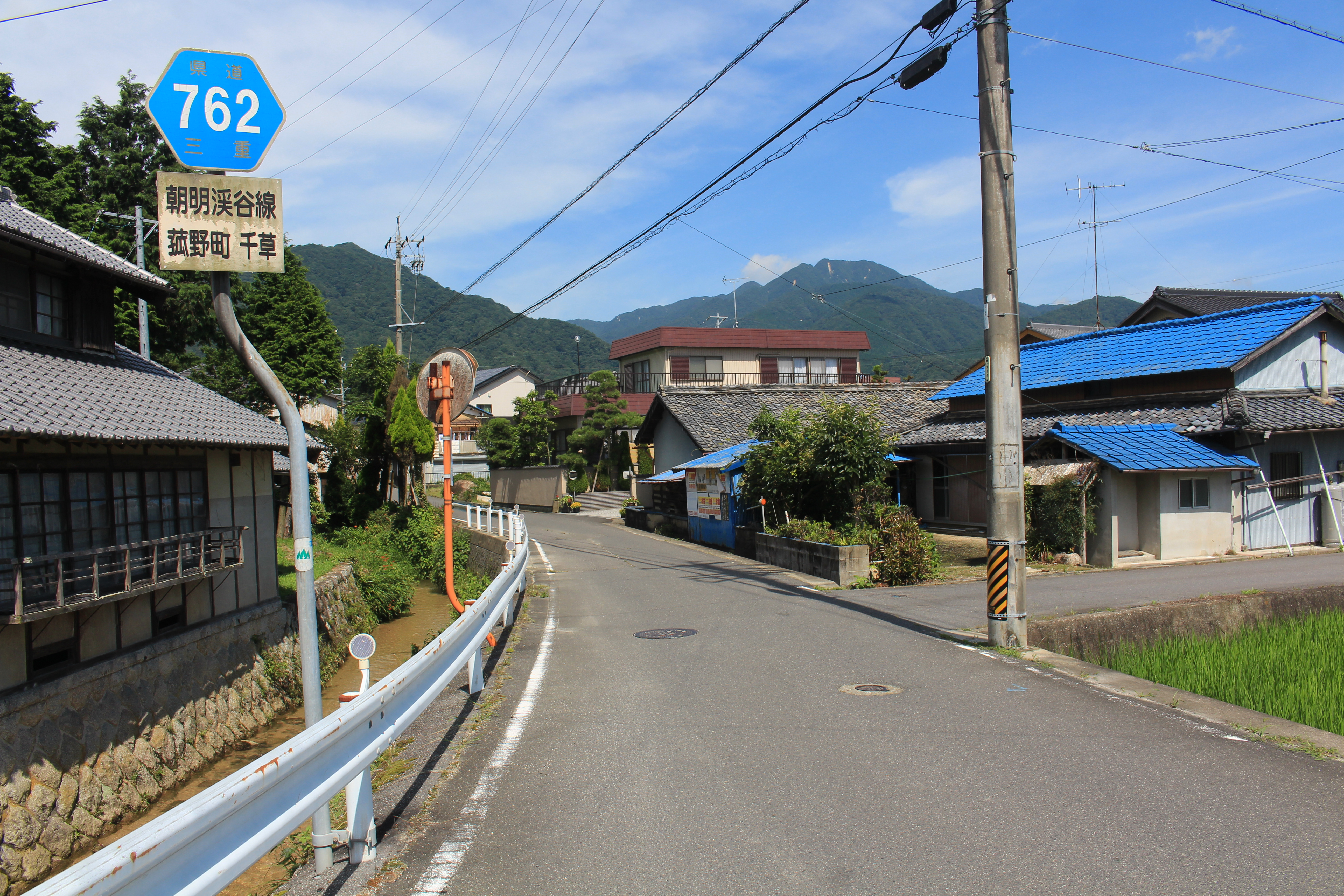 Mie Prefectural Road Route 762 in Chikusa, Komono, Mie prefecture, Japan.